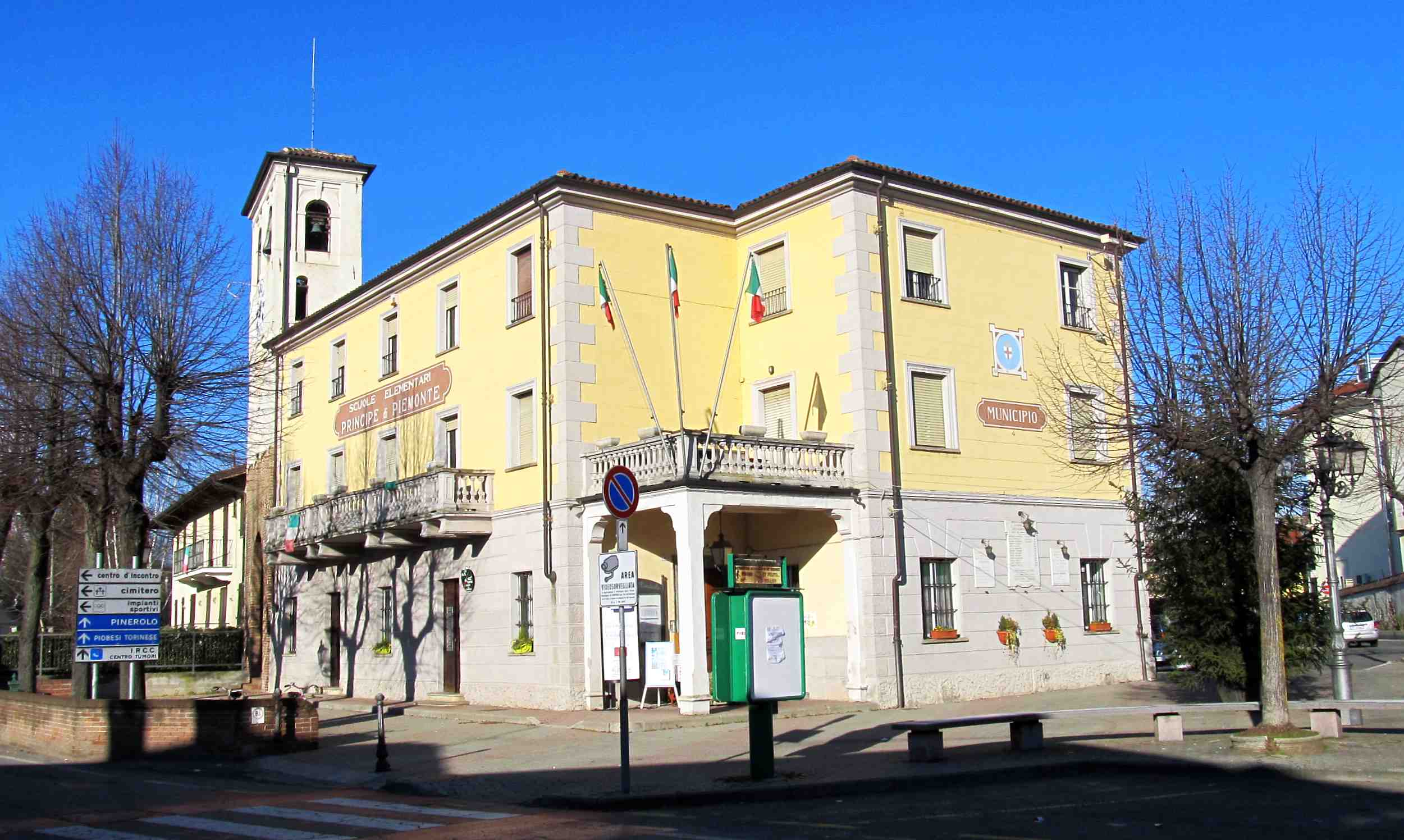 Candiolo (TO, Italy): former town hall